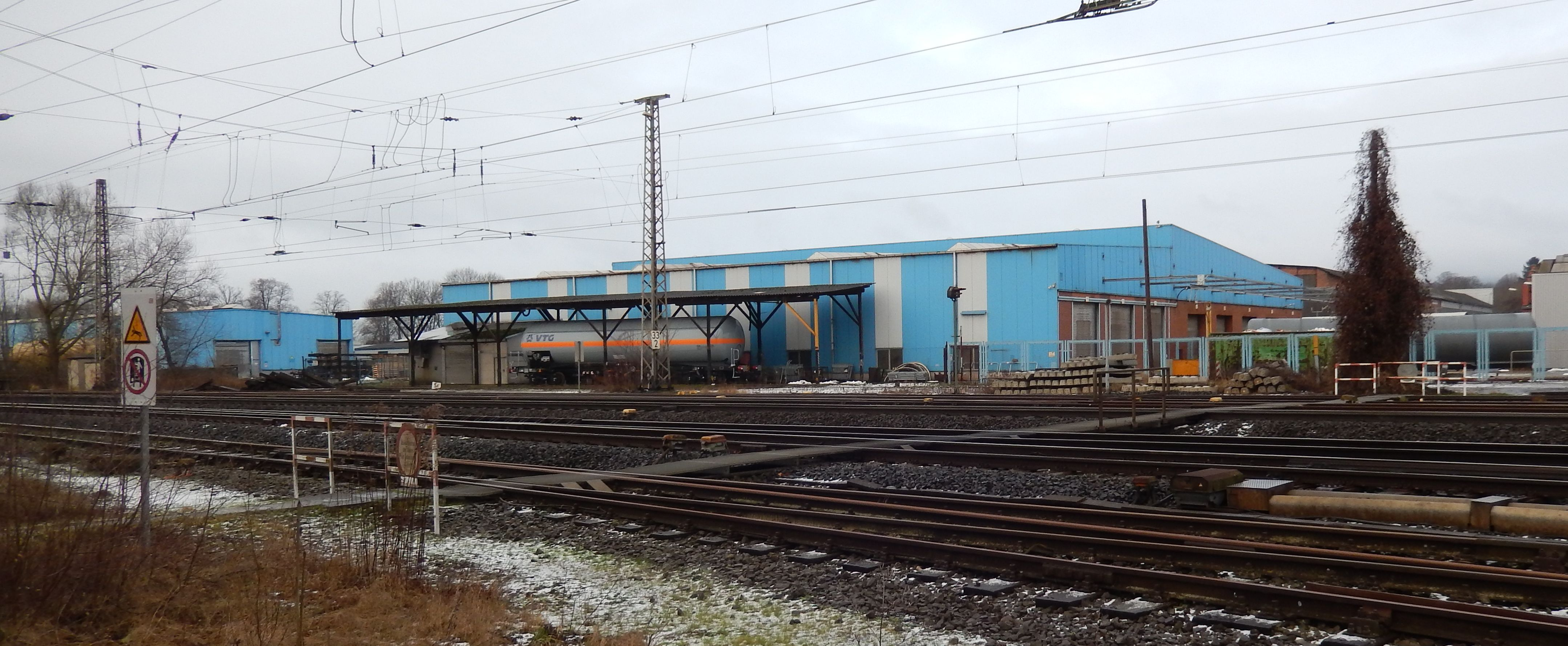 Facility of Waggonbau Graaff, Elze, Germany.